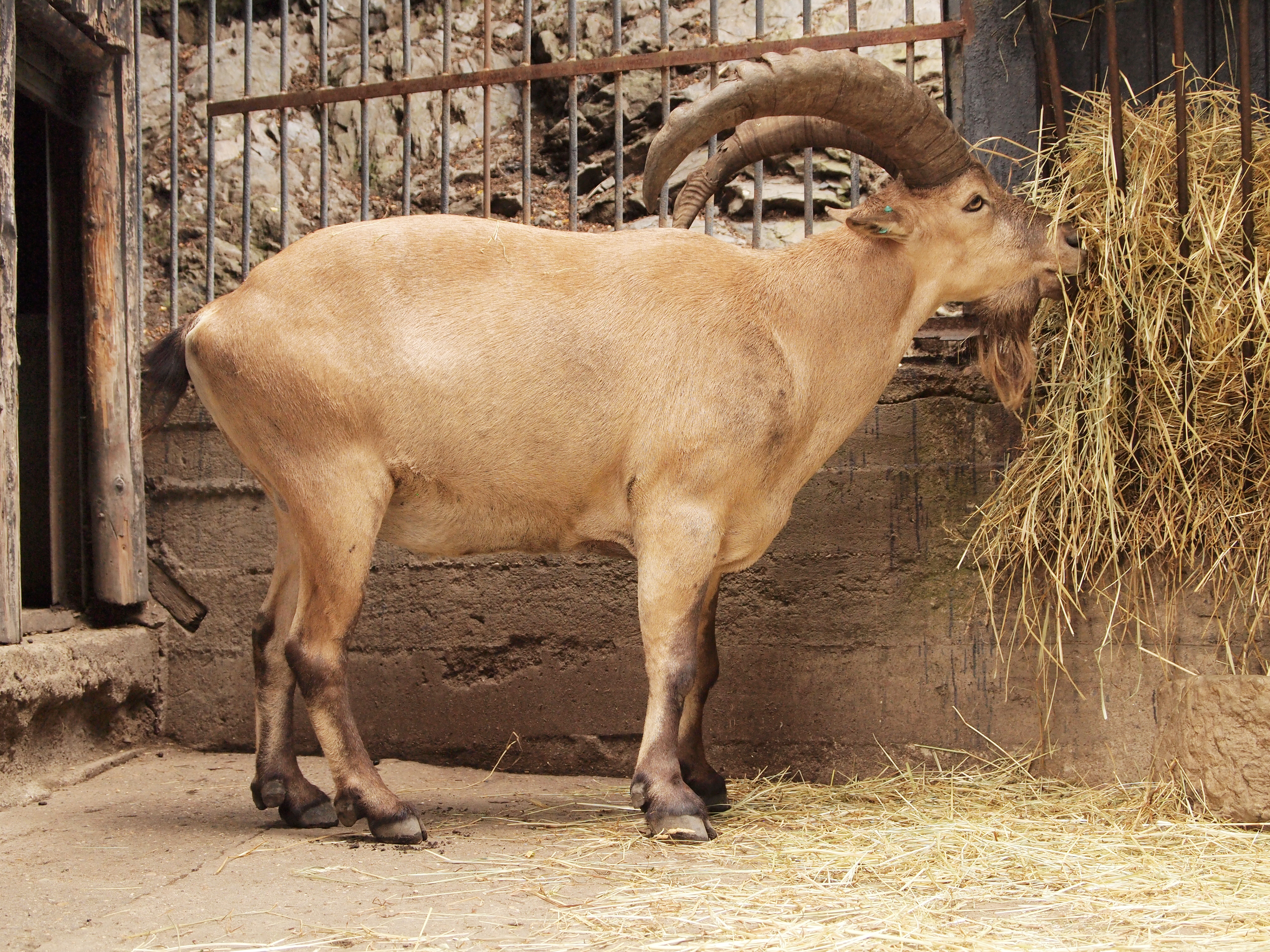 Prague Zoo. This photograph was taken with an Olympus E-PL1